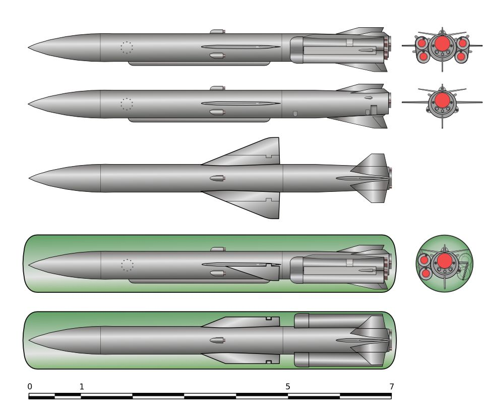 Anti-ship cruise missiles P-70 Ametist SS-N-7 "Starbright"